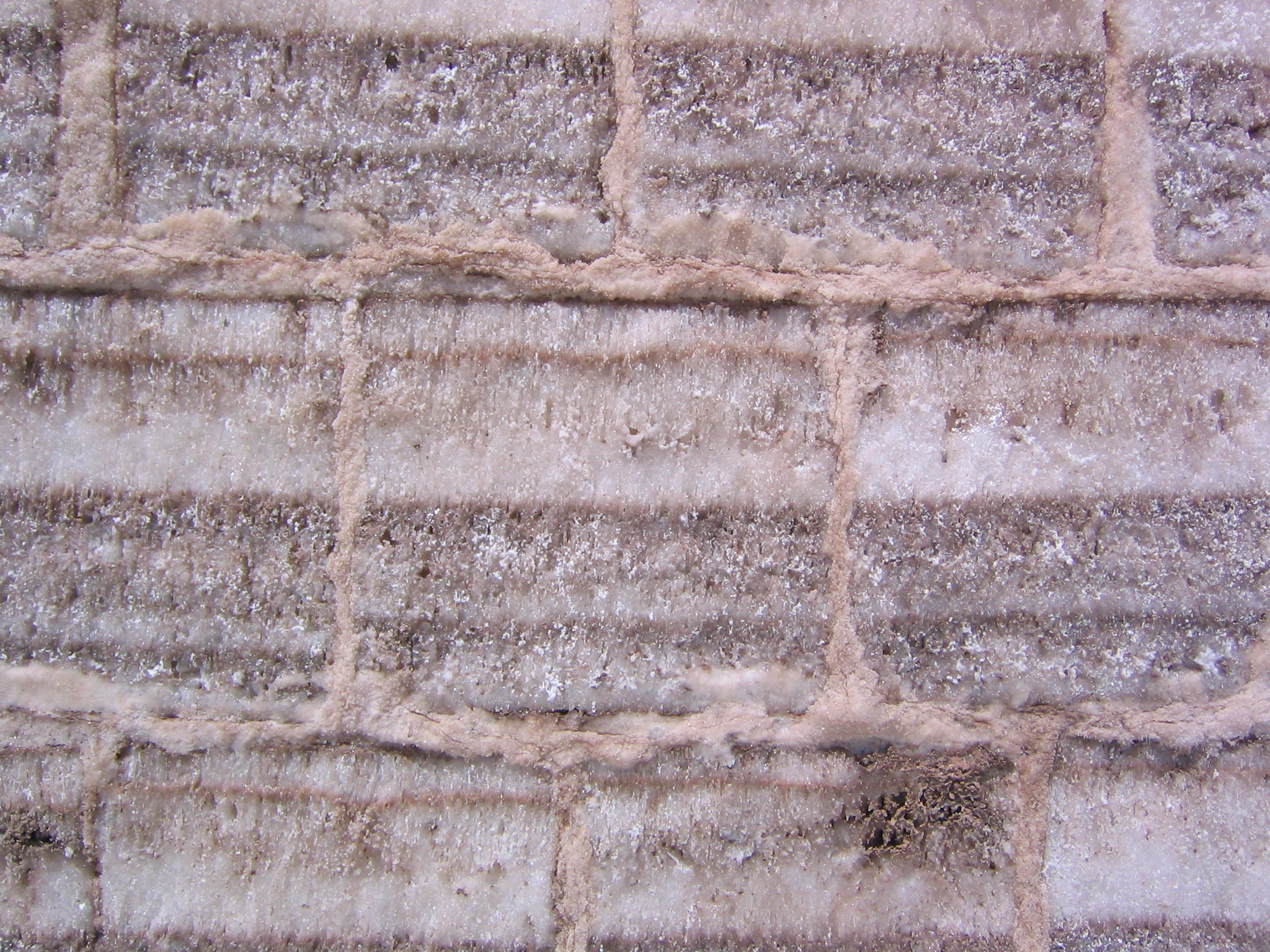 Salt bricks in the salt hotel in the salt lake - Salar de Uyuni, Southern Bolivia.